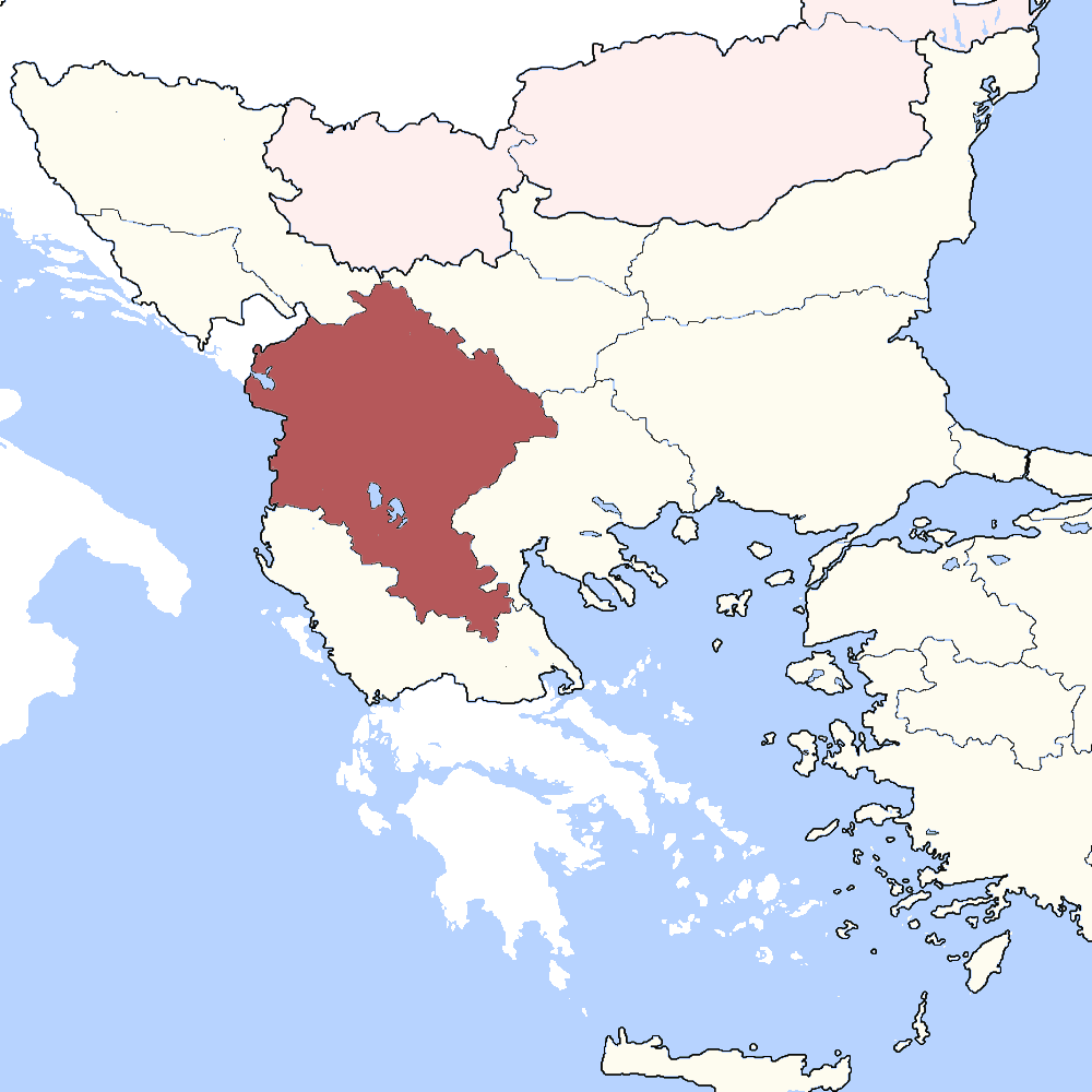 Monastir Eyalet in 1850s. Tributary states of the Ottoman Empire are shown in pink. According to the information of this map: [1]